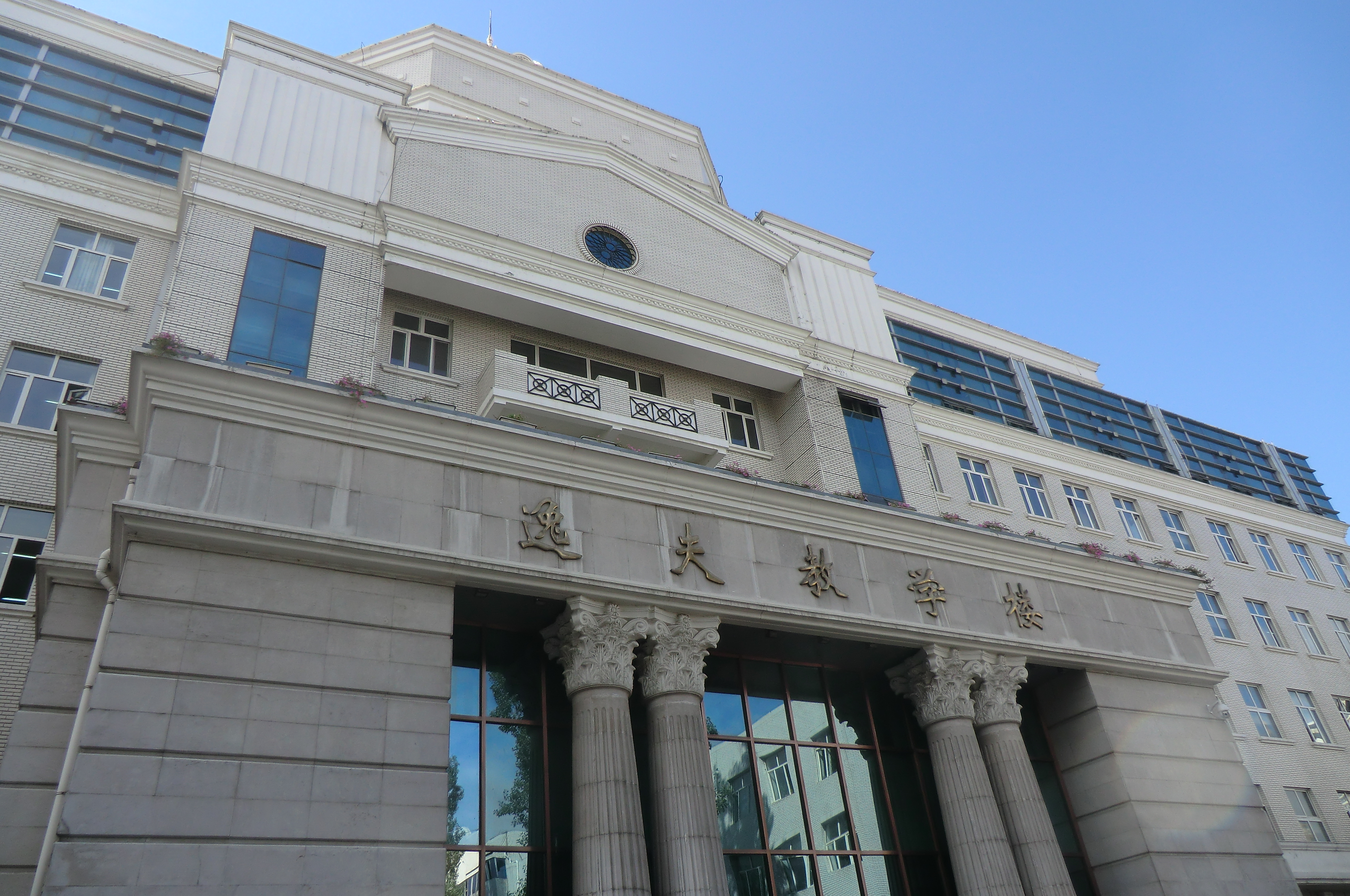 Shaw Teaching Building of Middle School Attached to Harbin Normal University